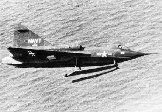 A Convair XF2Y-1 Sea Dart (BuNo.137634) in flight off San Diego, California (USA), ca. 1954/55. This aircraft is bad condition at smithsonian institute now.